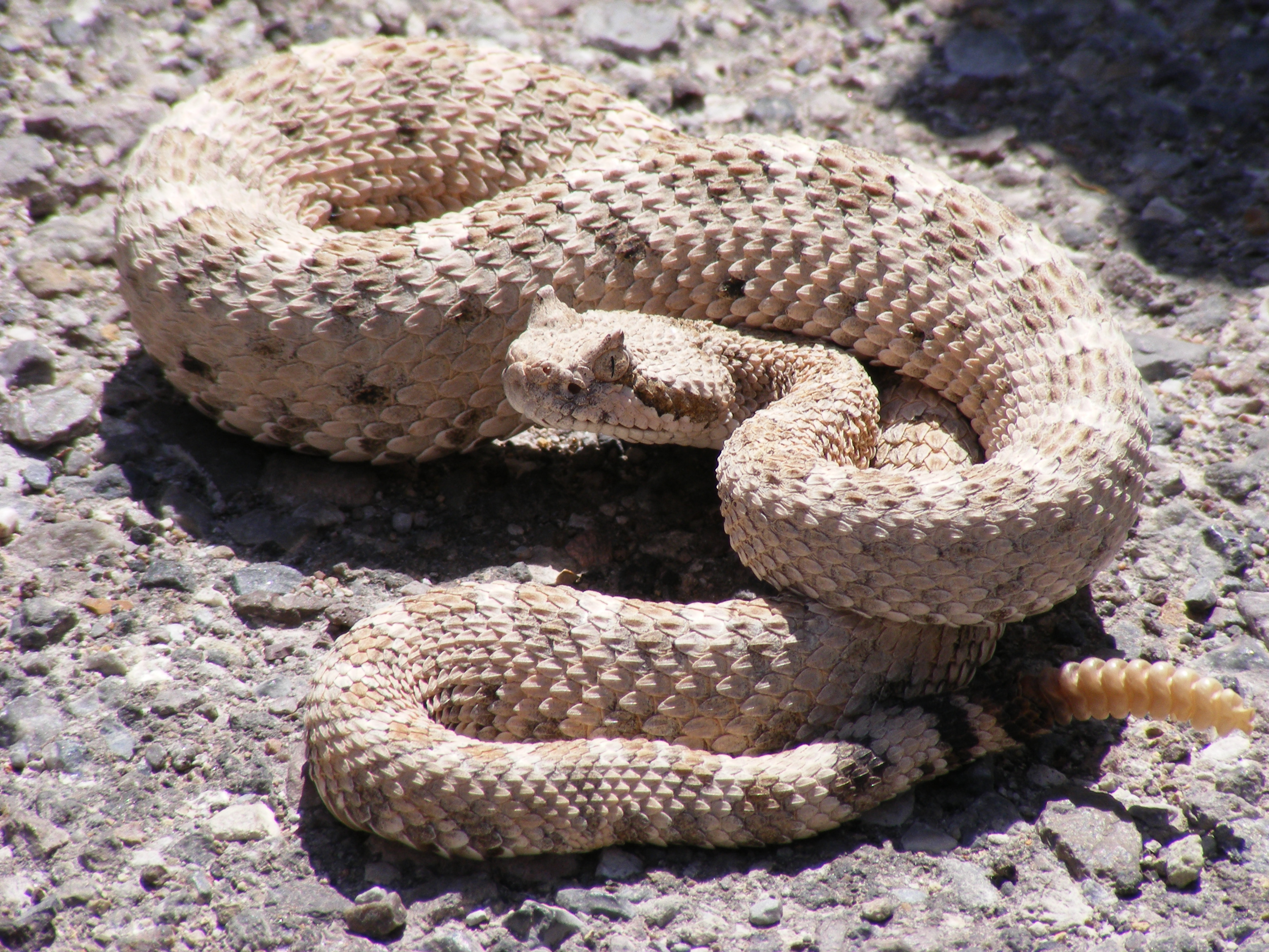 Horned rattlesnake (Crotalus cerastes), Mesquite Springs Campground, Death Valley National Park, California.